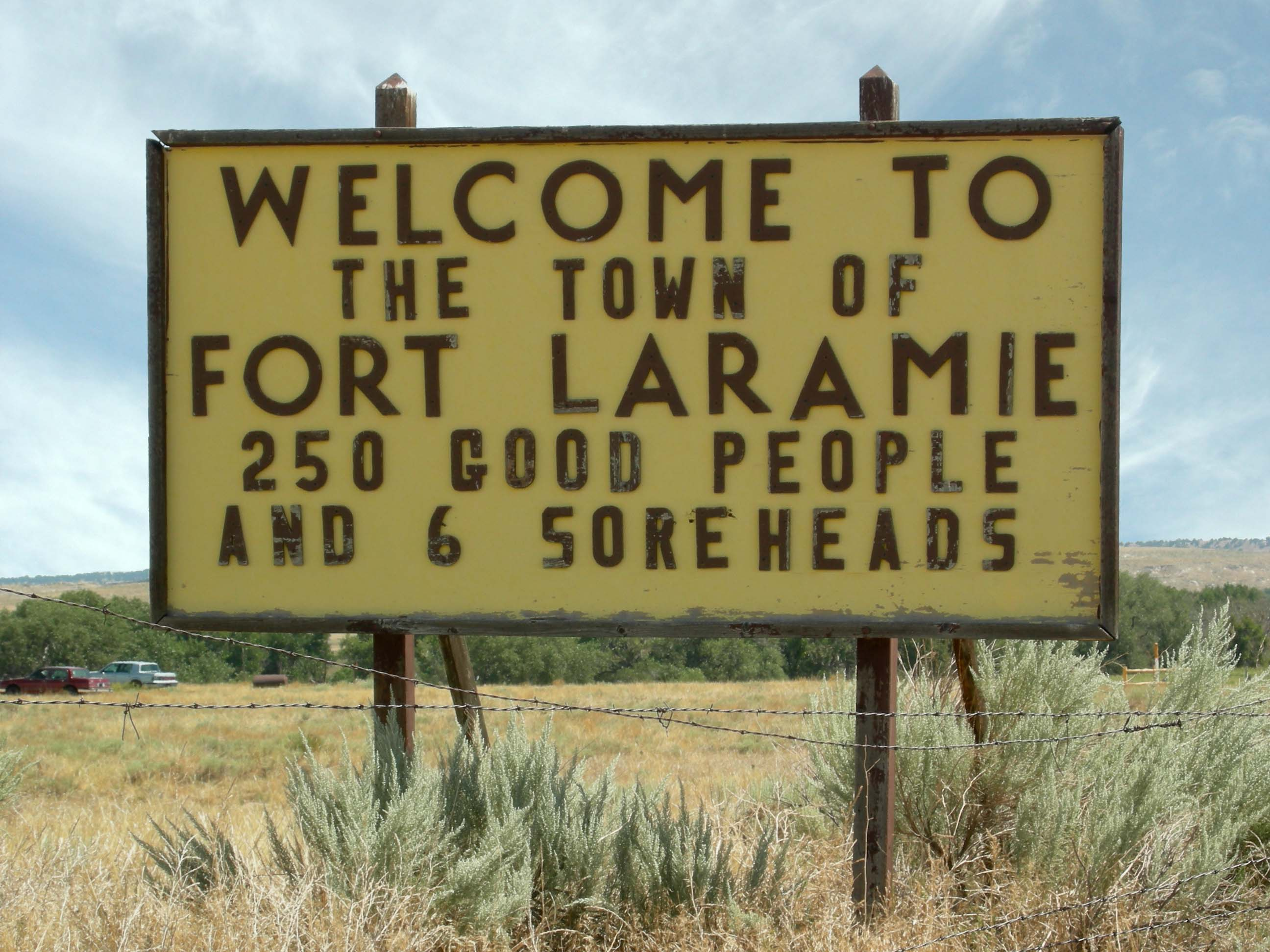 Fort Laramie, Wyoming Sign